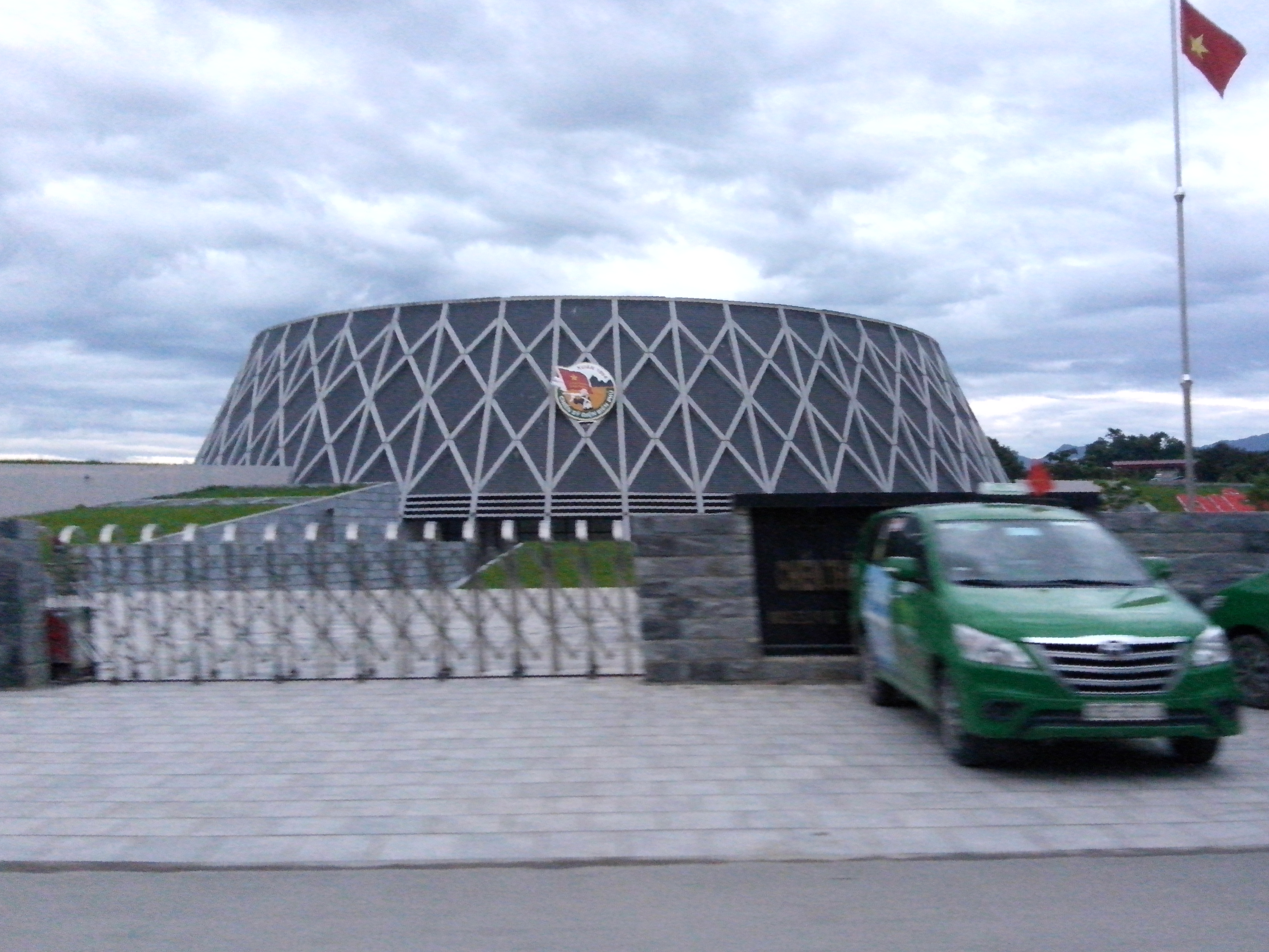 Front view of The The Museum of Điện Biên Phủ Victory, Điện Biên, Vietnam